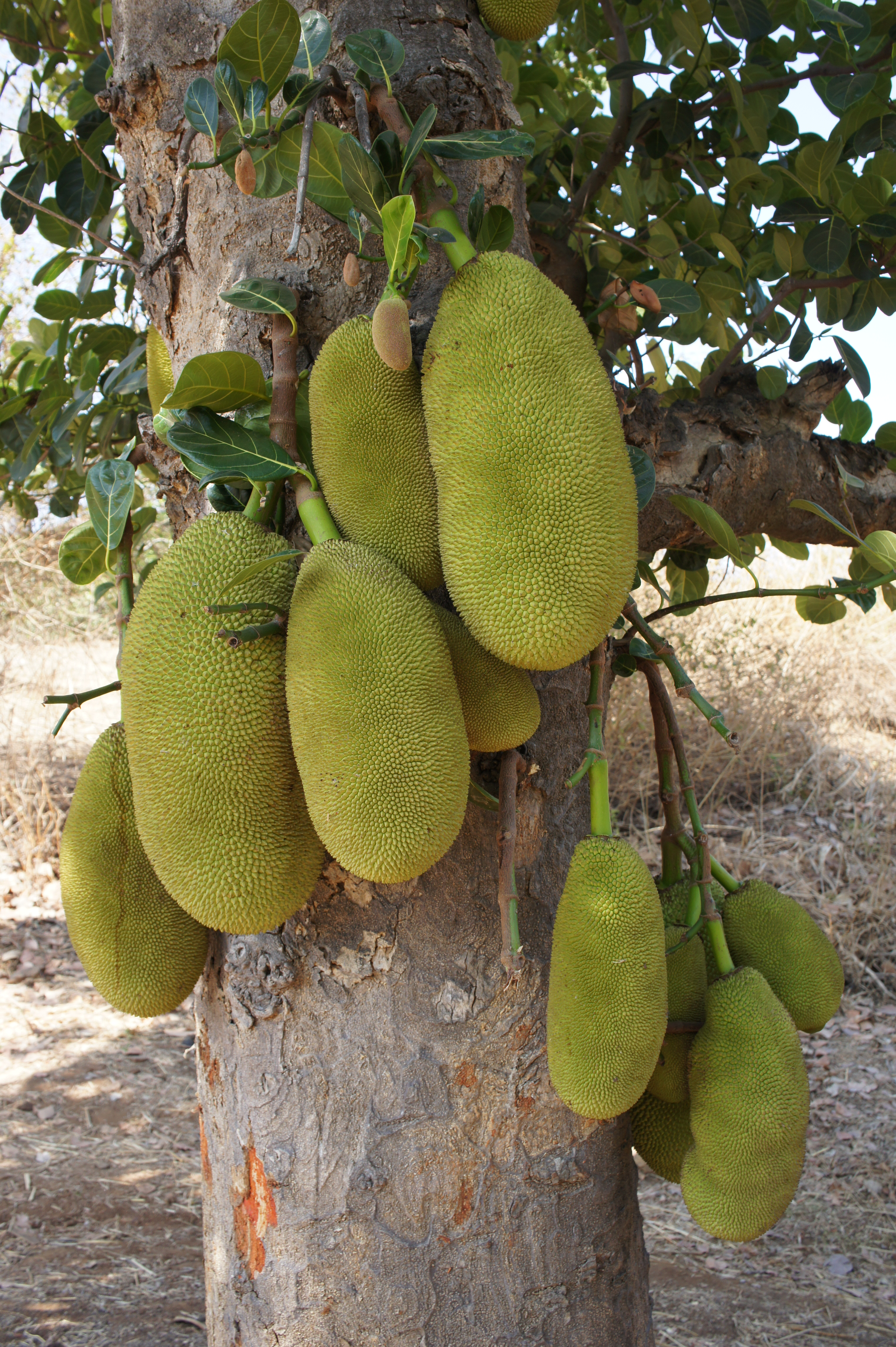 Jackfruit in Gujarat, India.